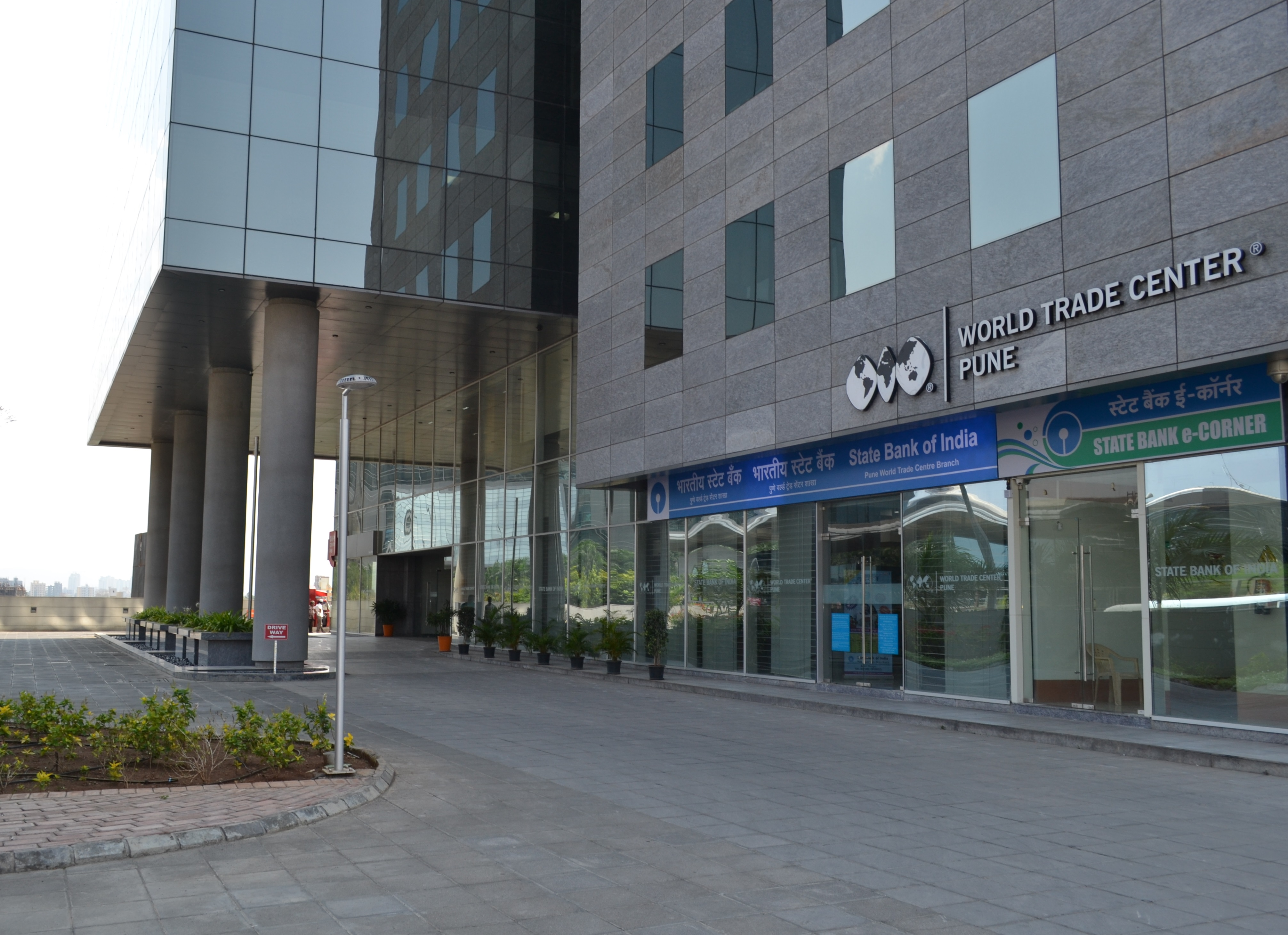 World Trade Center in Pune, India